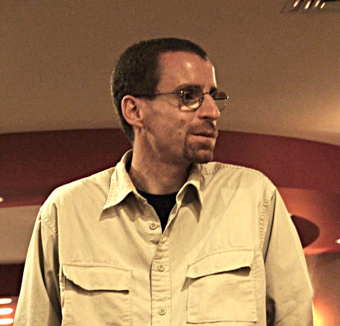 Photograph of Alexandre Julliard take at the 2008 Wine conference, 2009-12-08